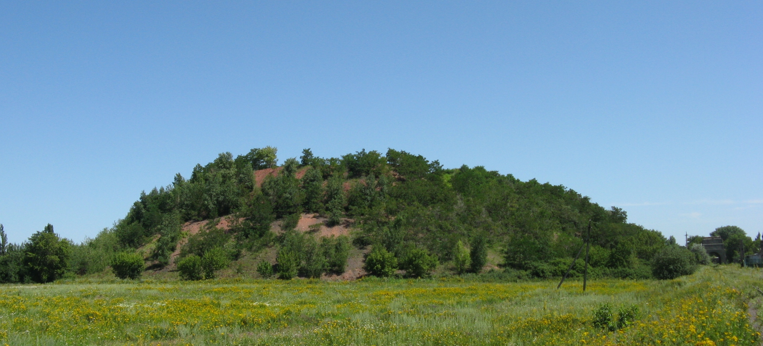 Slag heaps shaft 15 BIS is located in Snizhne Donetsk region., Ukraine. On waste heaps done planting (Revegetation) - planted acacia.